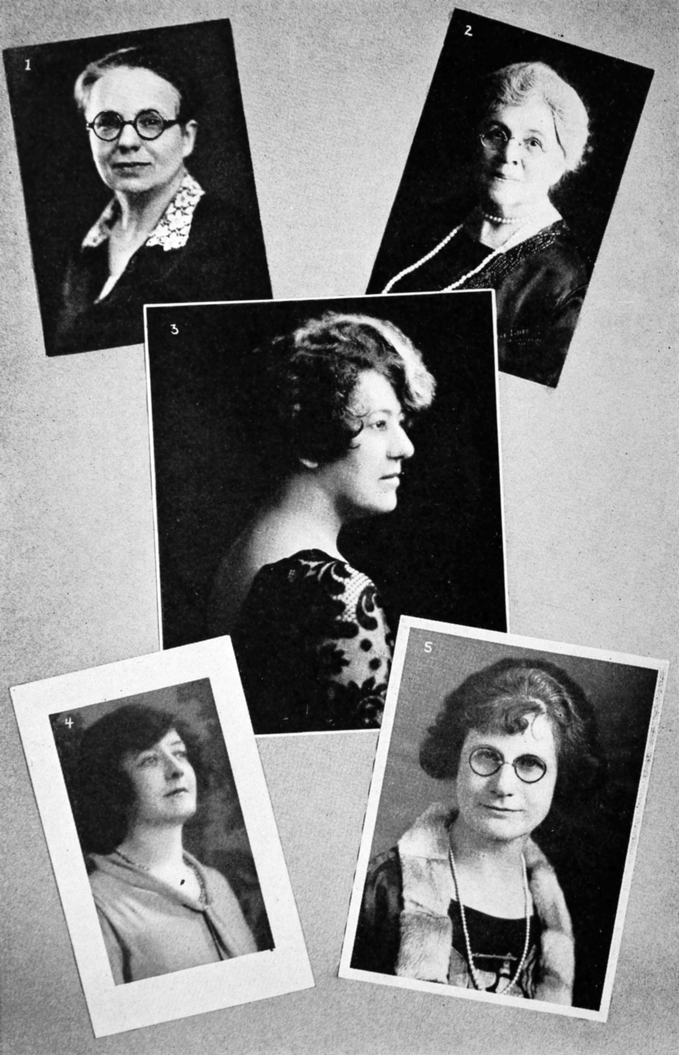 Women of the West; a series of biographical sketches of living eminent women in the eleven western states of the United States of America by Binheim, Max; Elvin, Charles A Publication date 1928 Topics Women Publisher Los Angeles, Calif., Publishers Press Collection uconn_libraries; americana Digitizing sponsor LYRASIS Members and Sloan Foundation Contributor University of Connecticut Libraries Language English 223 p. bports. c24 cm. Bookplateleaf 0003 Call number F595 .B59 Camera Canon EOS 5D Mark II Identifier womenofwestserie00binh Identifier-ark ark:/13960/t22c0sd8h Lccn 28021005 Ocr ABBYY FineReader 8.0 Page-progression lr Pages 284 Possible copyright status Copyright either not claimed or not renewed. Item is in the public domain. Ppi 500 Scandate 20130807152456 Scanner Scanningcenter boston Full catalog record MARCXML